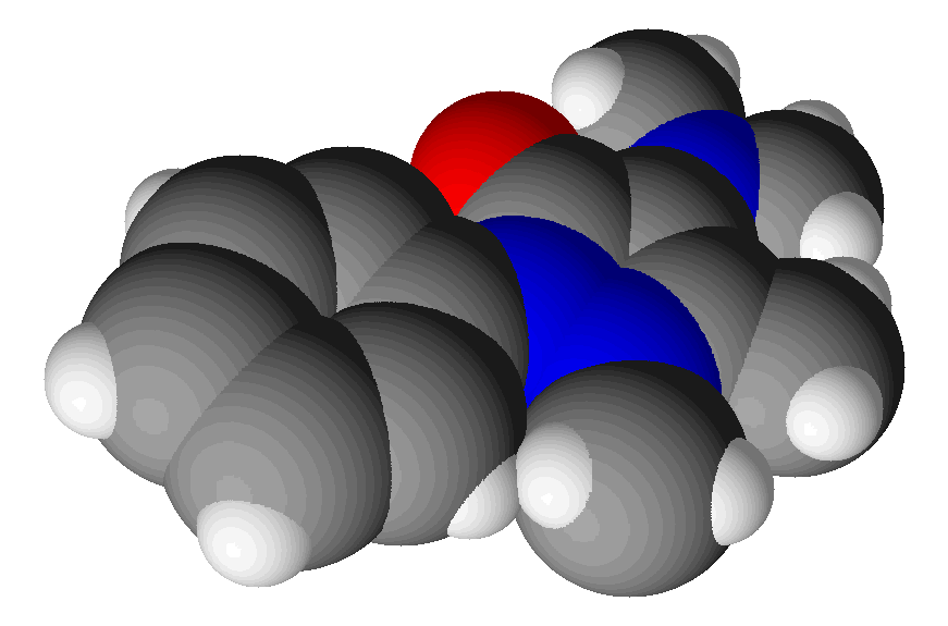 Aminophenazone 3D-structure